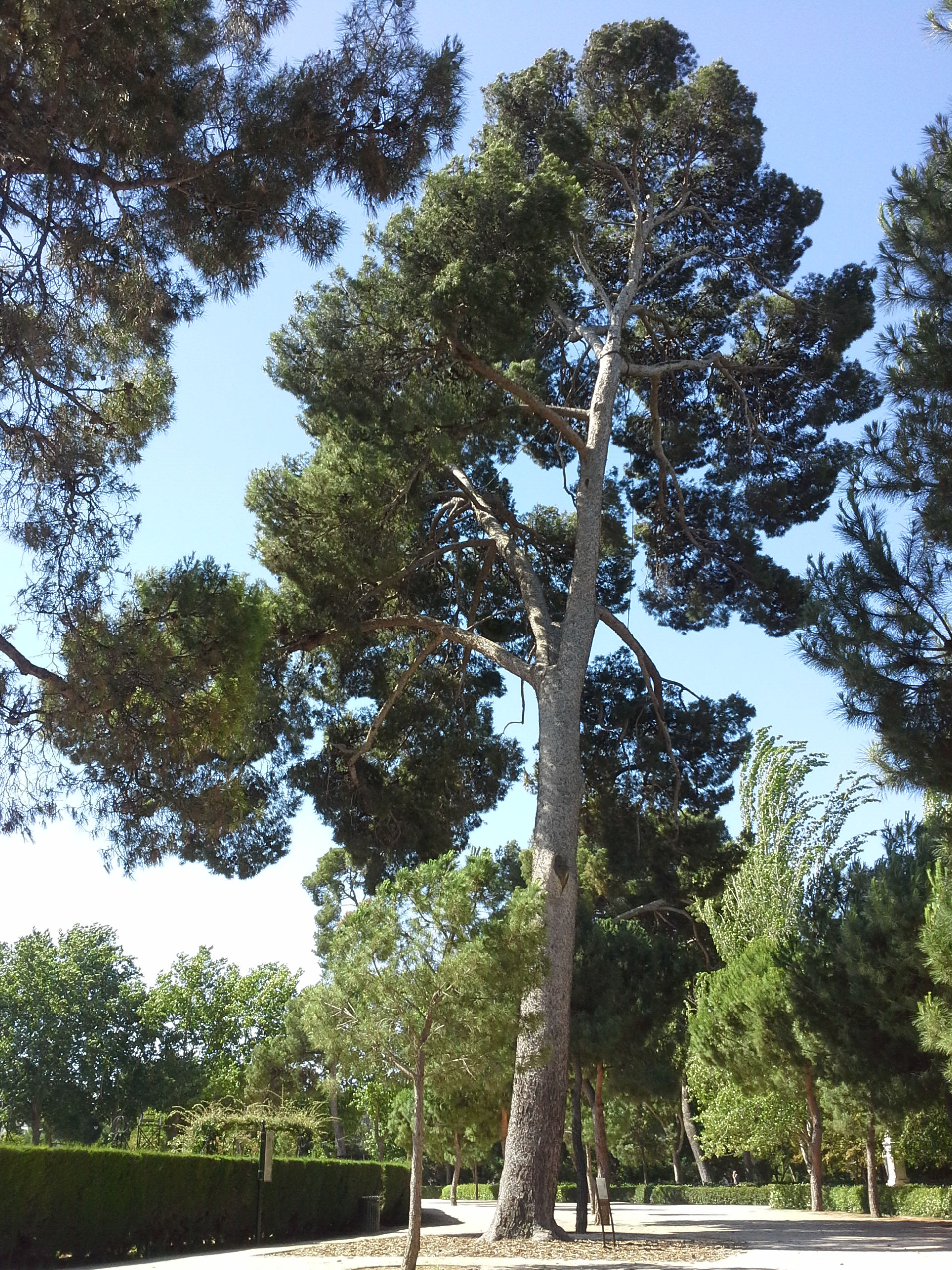 Pinus halepensis at Retiro Park